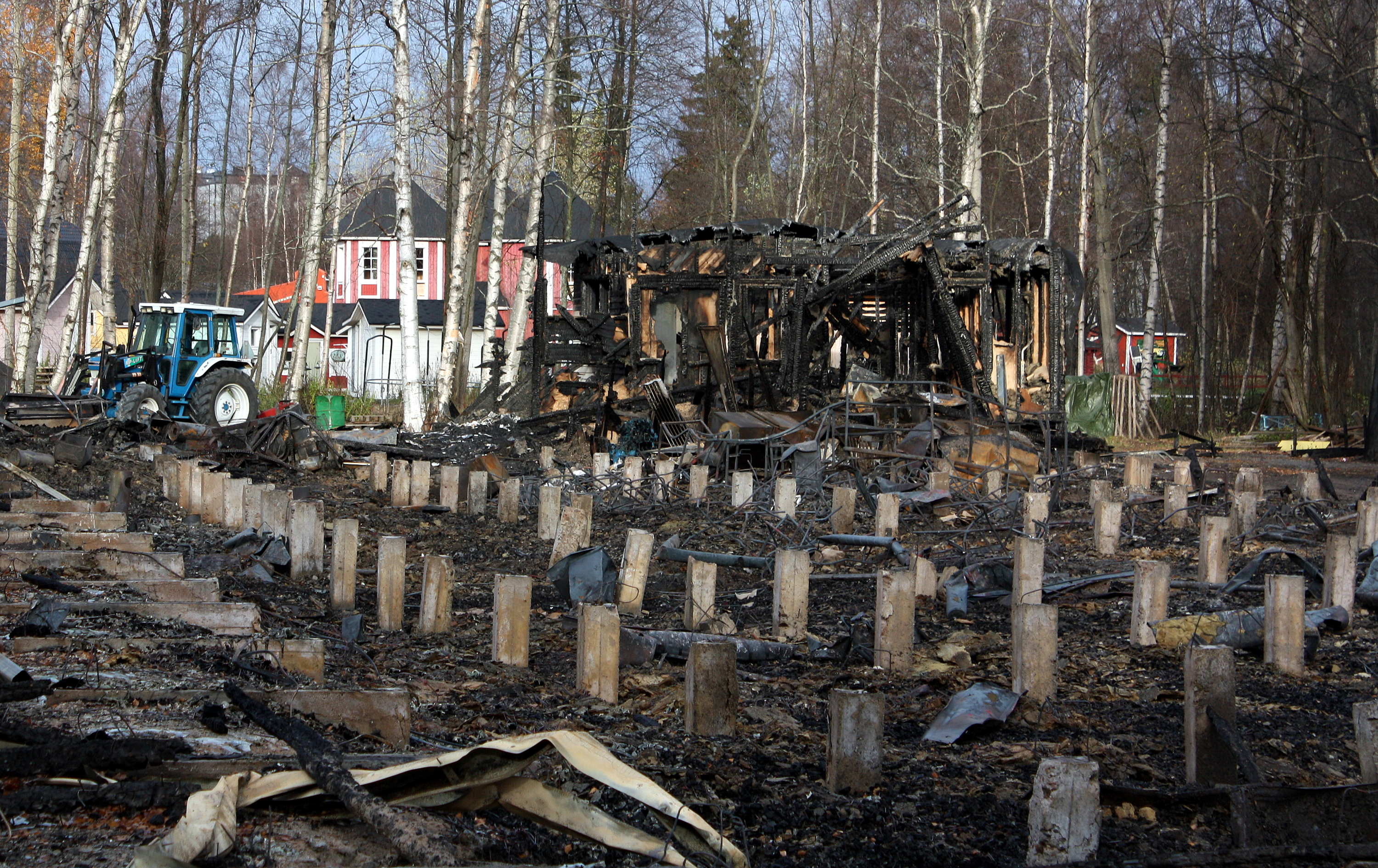 The remains of the dance hall Tanssimajakka (i.e. Dance Lighthouse) in Hietasaari, Oulu. The dance hall was destroyed in a fire October 10th 2010.